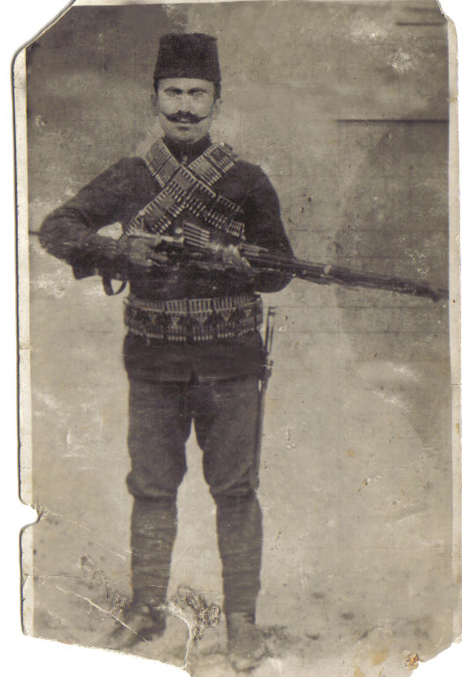 This is a photograph of my grandfather's relative, Galust Dadrian, who was an army officer in the Ottoman Empire's military. His brother was also a soldier in the army who was subsequently killed during the Armenian Genocide. Realizing the fate he would soon suffer, he escaped but was caught and executed by Ottoman soldiers in 1915. The image is extremely old and I had to do a lot of touch up work using Photoshop. There was a 'scratch' around his eyes and so I did my best to restore it.